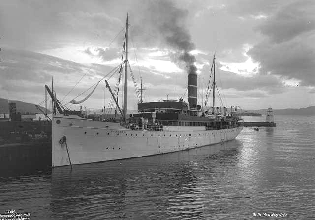 Norwegian passenger ship DS Haakon VII in Trondheim. This ship was built in 1907, and sailed in the coastal express service (hurtigruten) between 1922 and 1929.